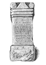 Altar dedicated to god Cocidius from Cohors I Nerviorum, found before 1772 in Netherby/Castra Exploratorum (GB).